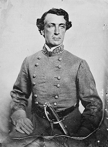 Portrait of Maj. Gen. Martin L. Smith, officer of the Confederate Army